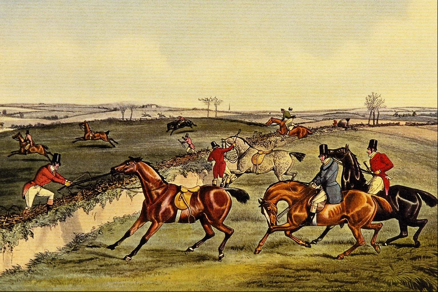 To the Craners of England